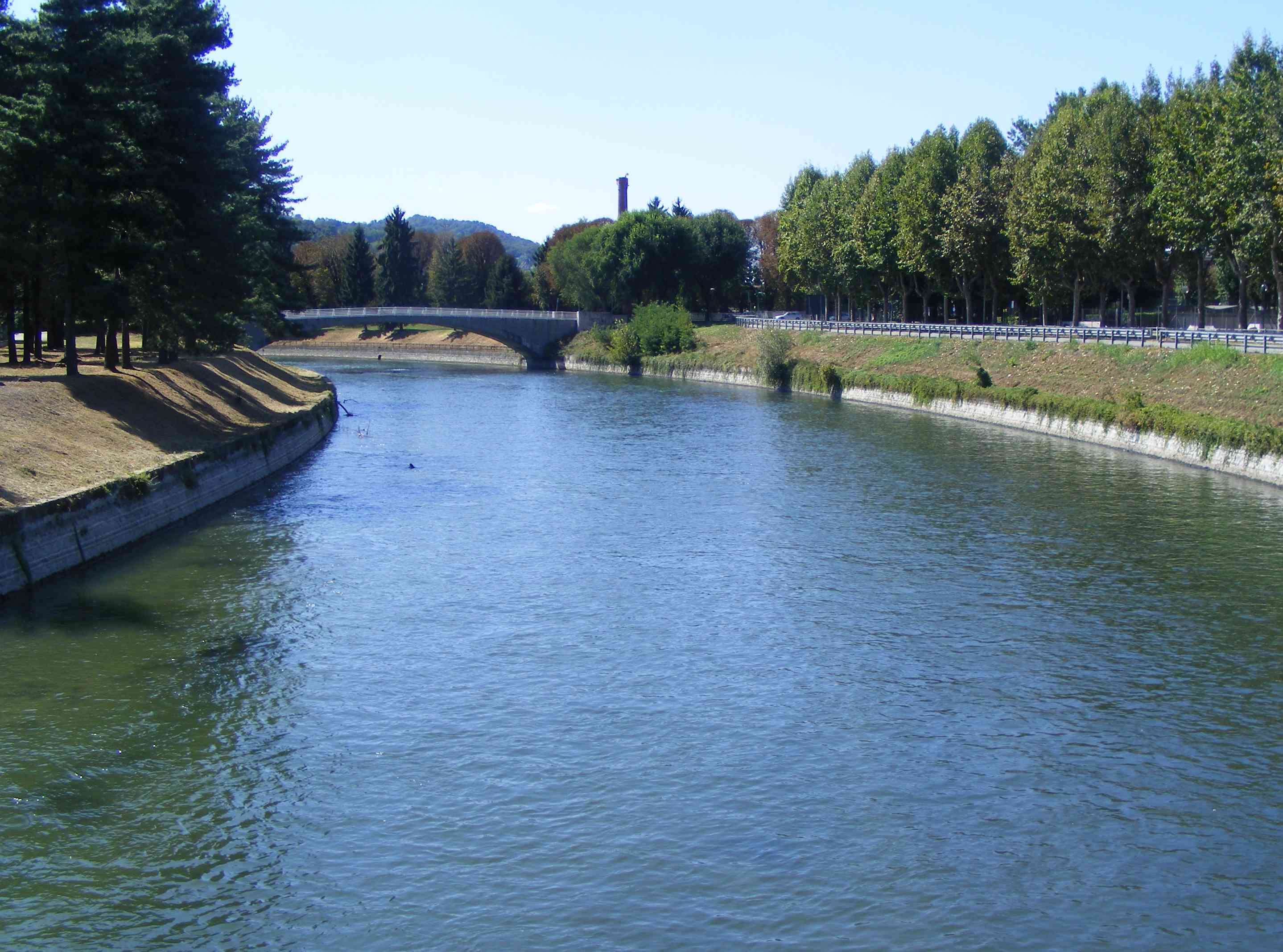 Cavour canal in Chivasso (TO, Italy)